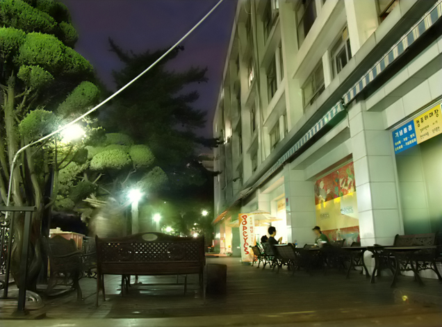 Cafe terrace of Hanyang Plaza in Hanyang University